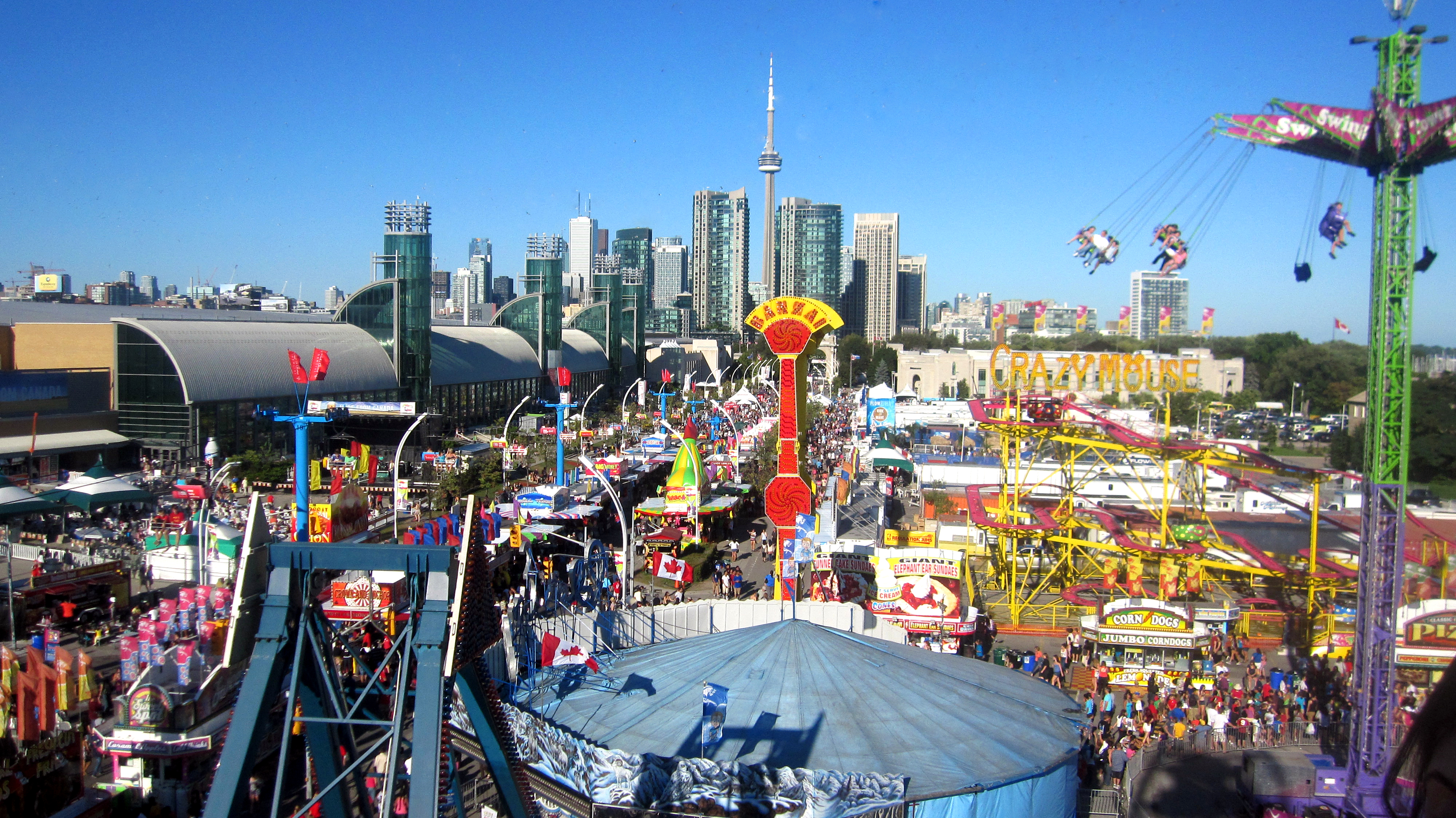 Shot from the Giant Wheel